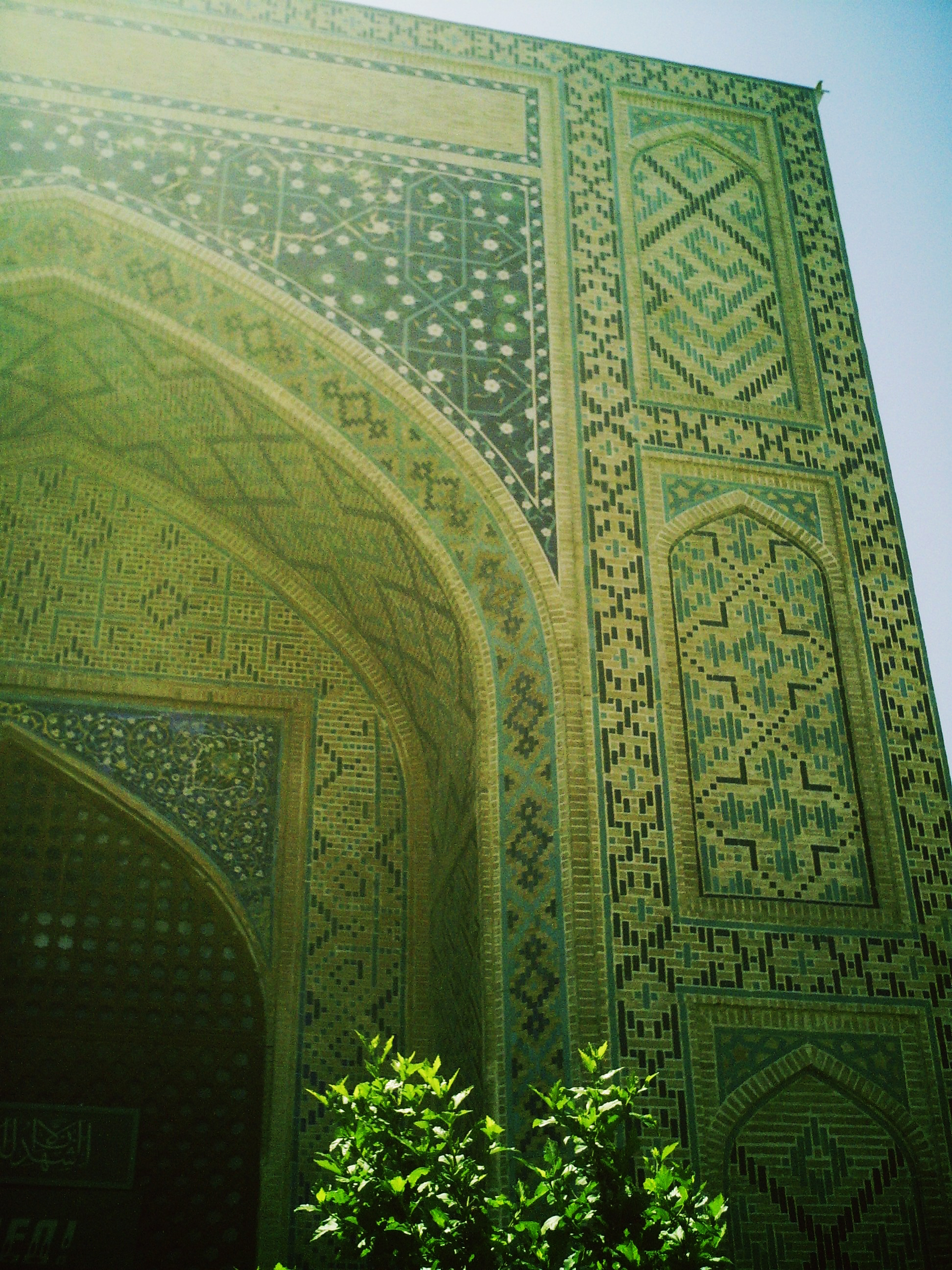 Detail view ovf the inner portal of the Abd-al-Latifa medresah, Istarawshan, Tadjikistan, June 2007